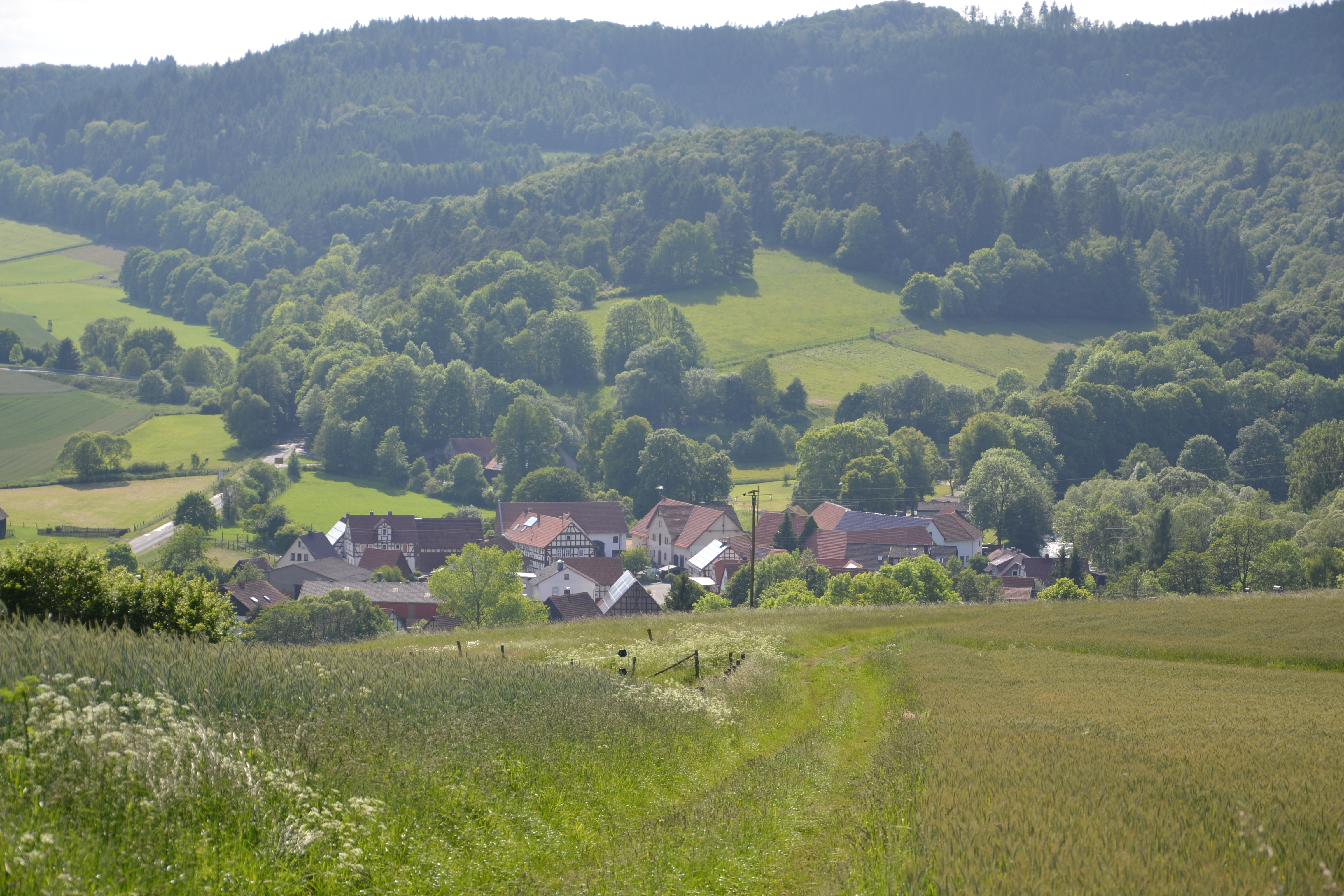 The village of Niederorke as seen from the East.